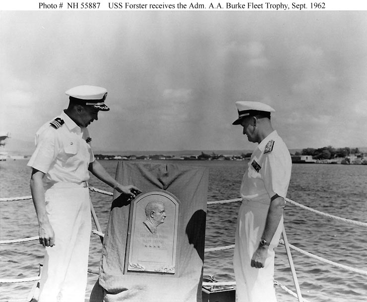 Photo #: NH 55887 USS Forster Commander Gordon R. Nagler and Admiral John H. Sides examine the Arleigh Burke Fleet Trophy plaque, during ceremonies in which the ship received the award, 19 September 1962. U.S. Naval Historical Center Photograph